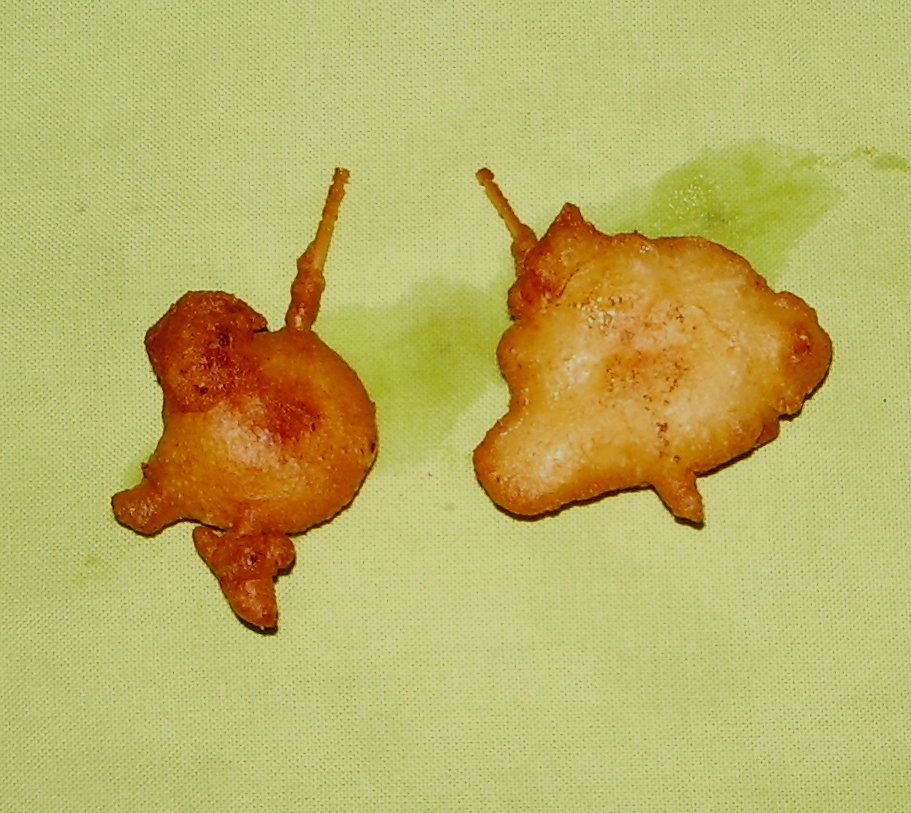 prawns coated named "caballito" (Hobbyhorse)